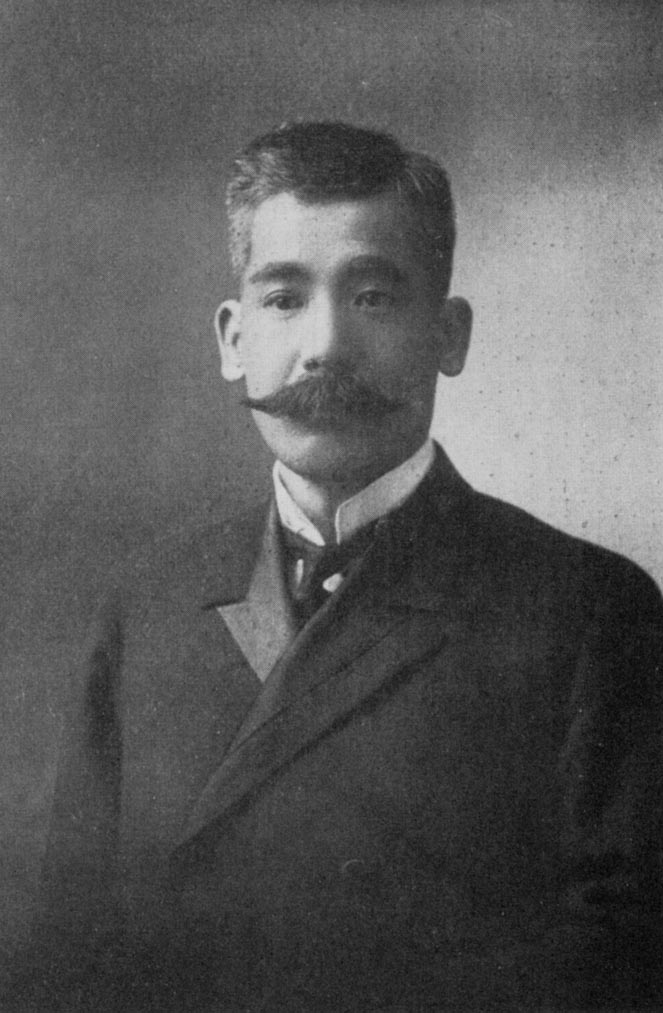 Baron Arata Iwasa.